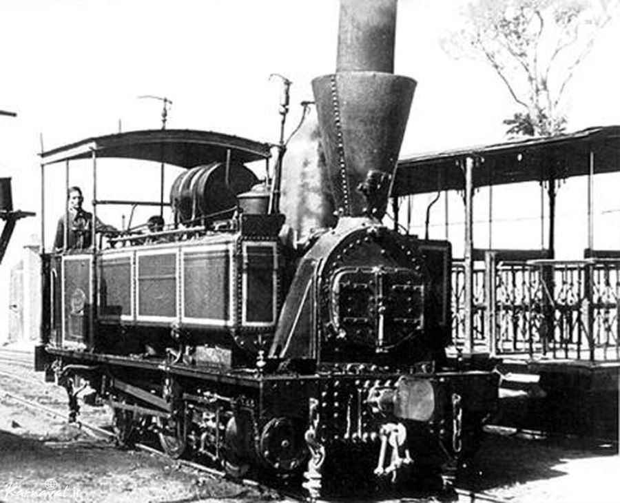 Mashin Doodi, literally "smoky machine/car", the name was given to Steam locomotive